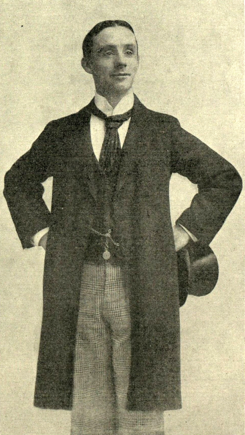 Dan Leno